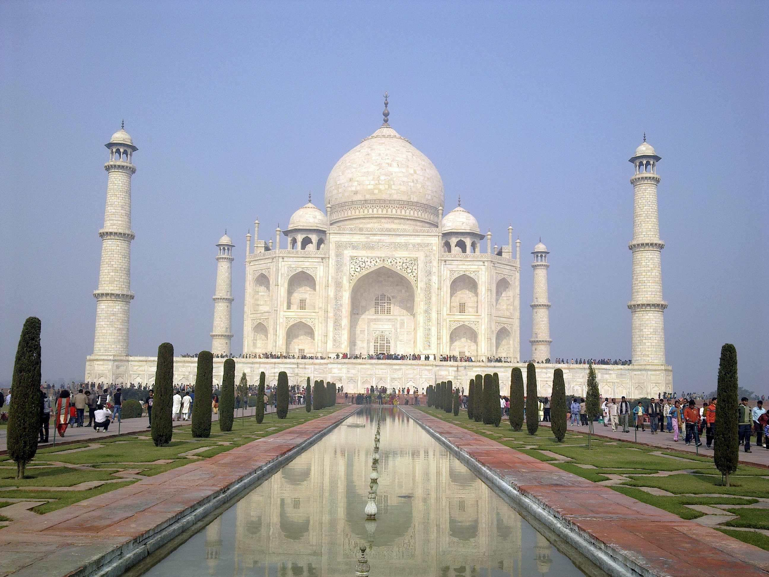 Taj Mahal and grounds including the Masjid on the west side, the pavilions on the east and west sides of the grounds; great south entrance gateway and great courtyard surrounded by cloisters.